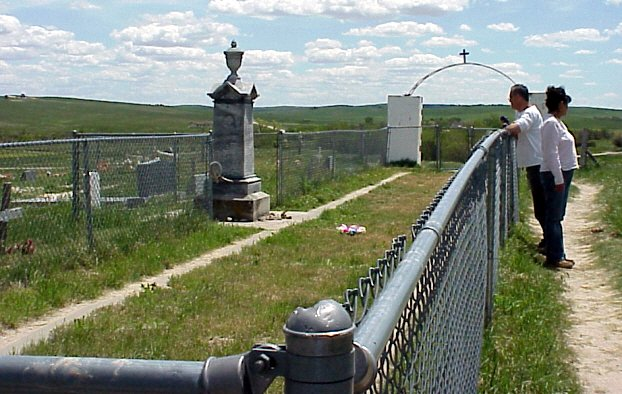 The mass grave at the Wounded Knee Massacre site in South Dakota on the Pine Ridge Reservation.